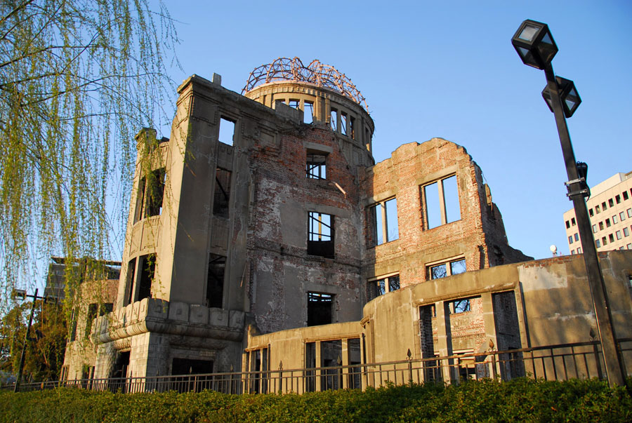 Ganbaku Dome is a destroyed building close to the hypocenter in downtown Hiroshima where the United States military dropped the first atomic bomb ever used in a real war. Today this building is treated as a symbol of peace and listed as World Heritage Site by UNESCO.